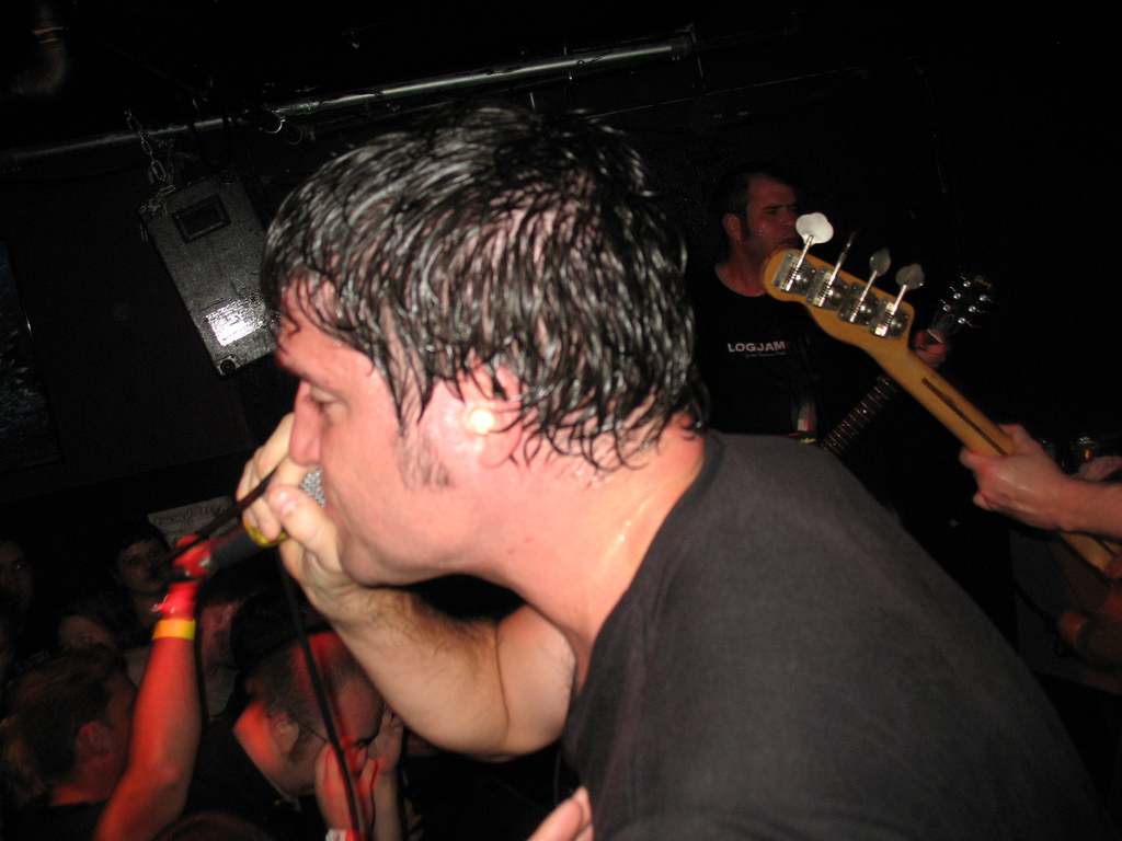 The New Bomb Turks and Spitzz at the Abbey lounge 8/19/06